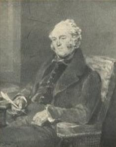 Walter Savage Landor (1775-1864), an English poet and writer